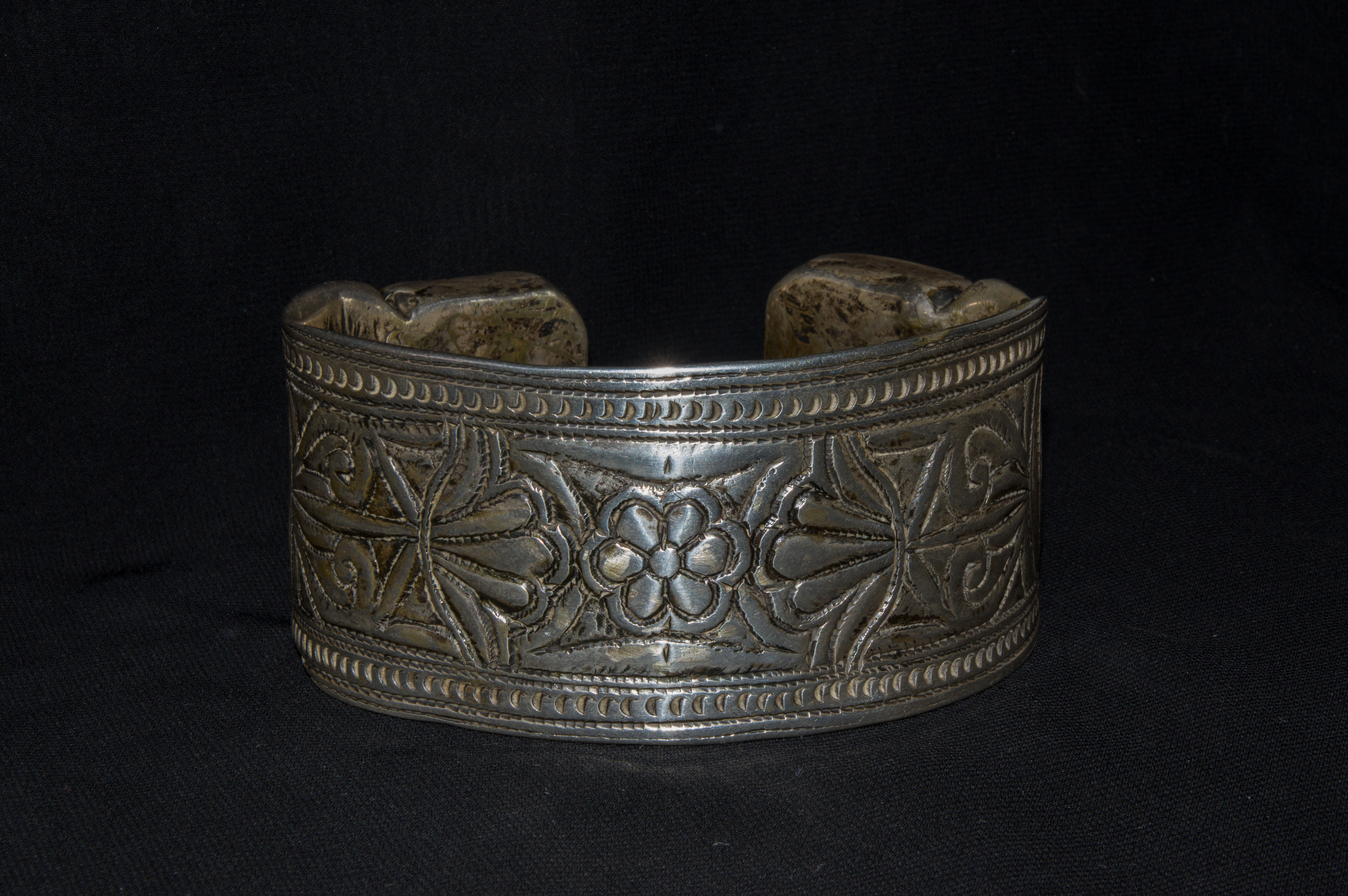 kholkhal en argent (Tunisie) This is an image of Cultural Fashion or Adornment from تونس